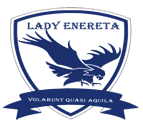 This is the school badge.